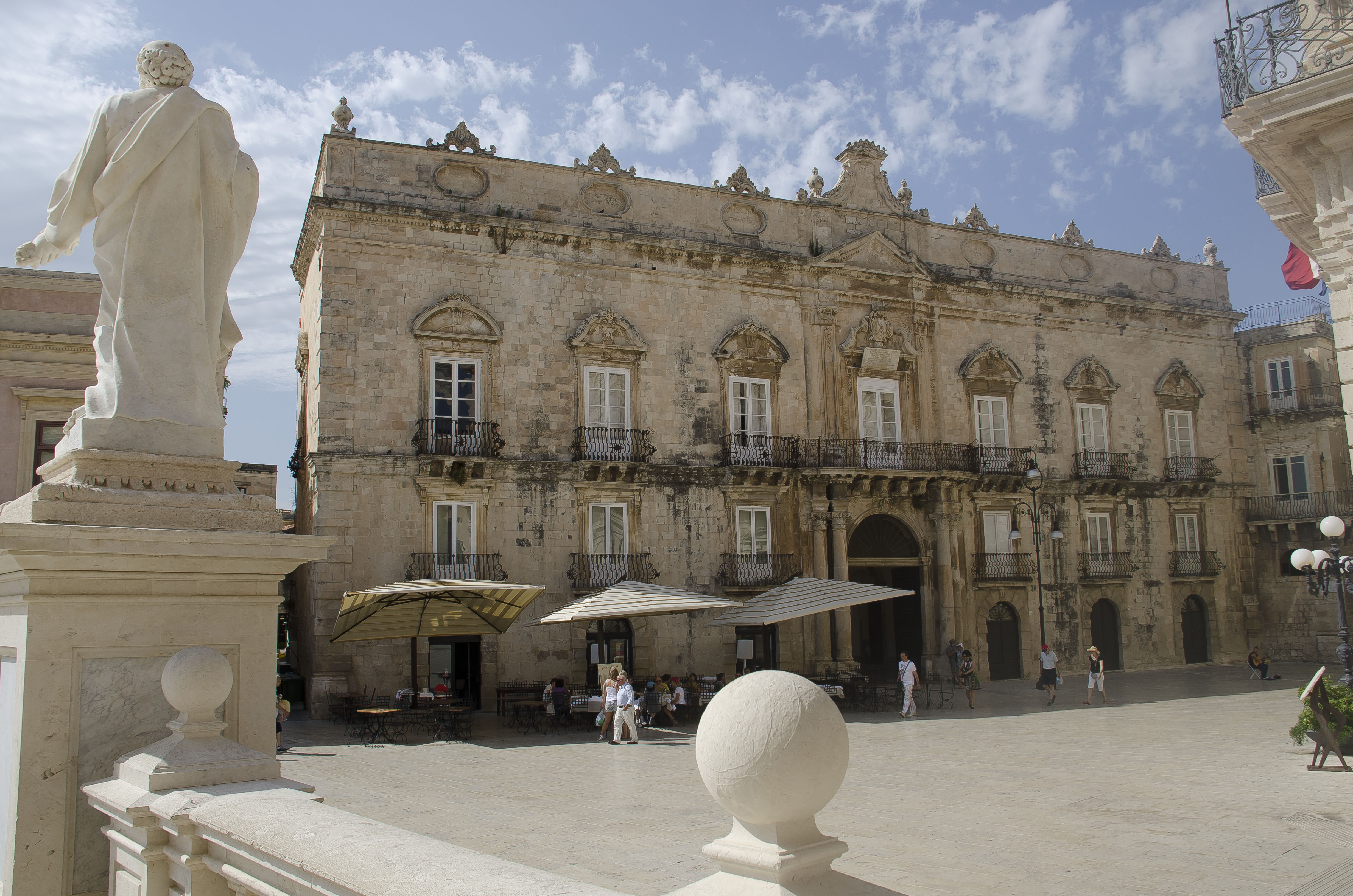 Palazzo Beneventano del Bosco, Siracusa, Sicily